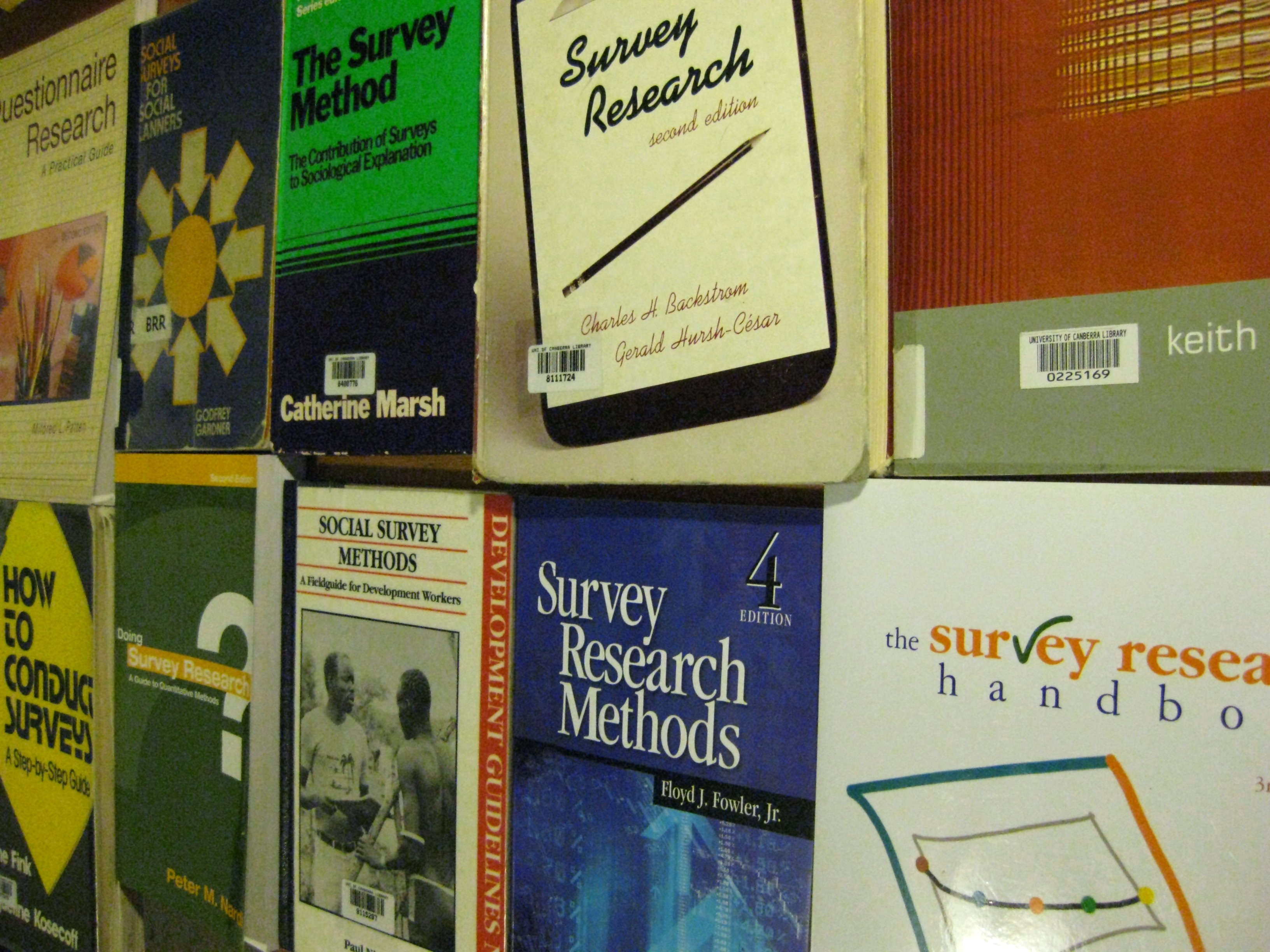 Books about survey research and survey design.